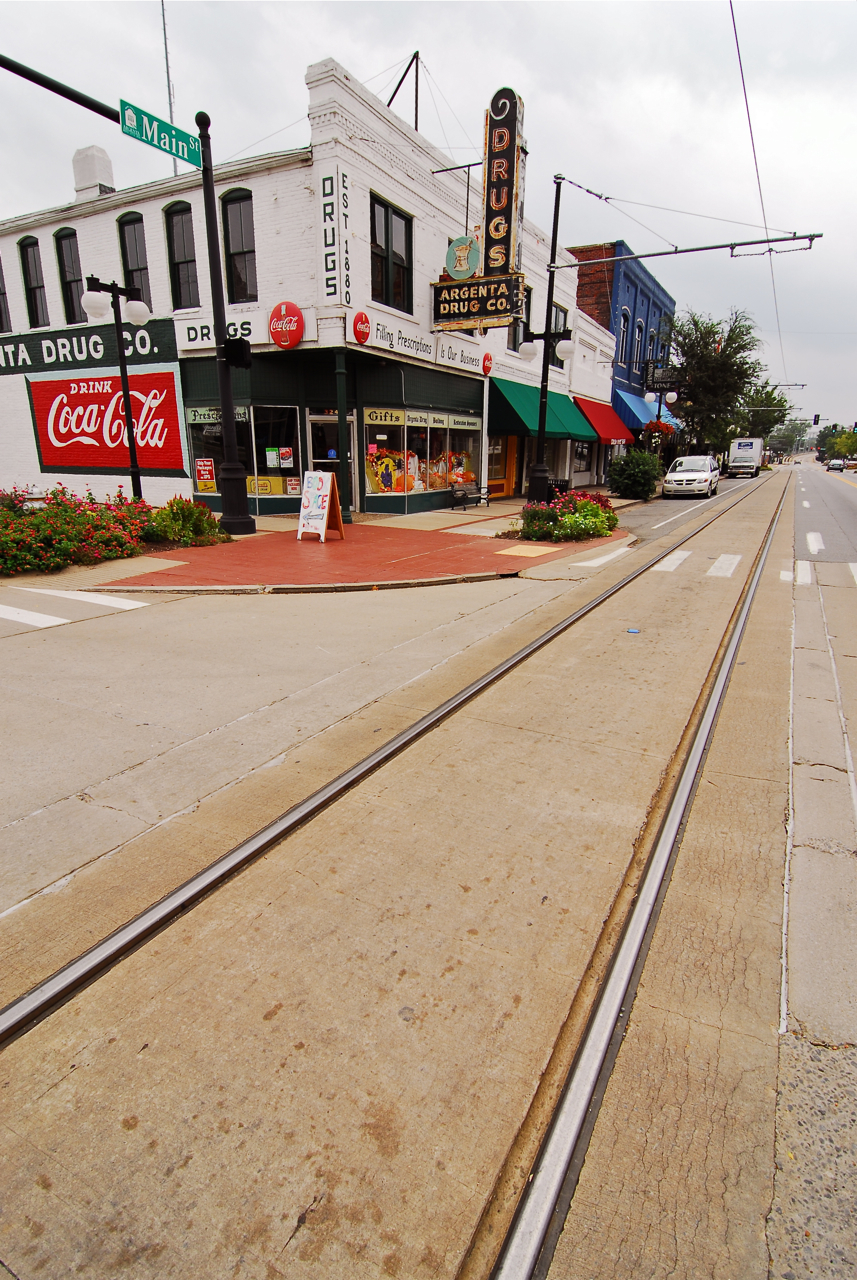 Downtown Argenta in Sept of 2011